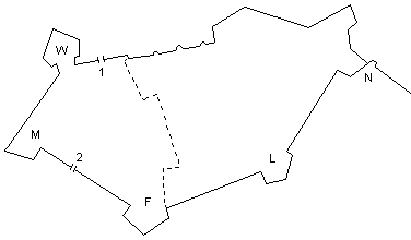 Citadel of Liege in 1650